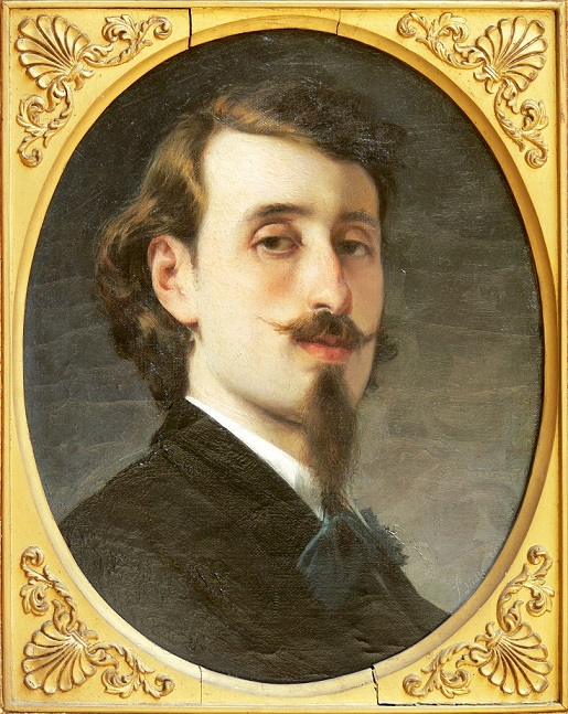 Luigi Busi. Self-portrait